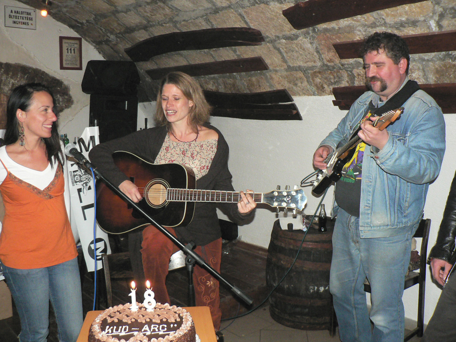 "Nagykorúsági" buli a 18 éves Kud-ARC pinceklubjában (2008)